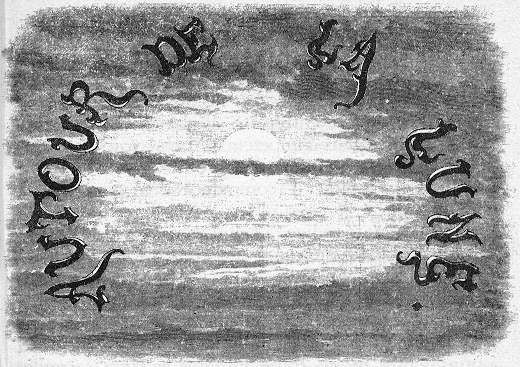 An illustration from Jules Verne's novel "Around the Moon" drawn by Émile-Antoine Bayard and Alphonse de Neuville.